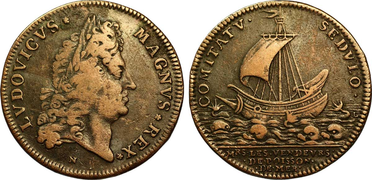 Jeton de la corporation des poissonniers de mer. Description revers : Un navire allant à gauche, entouré de sept dauphins .